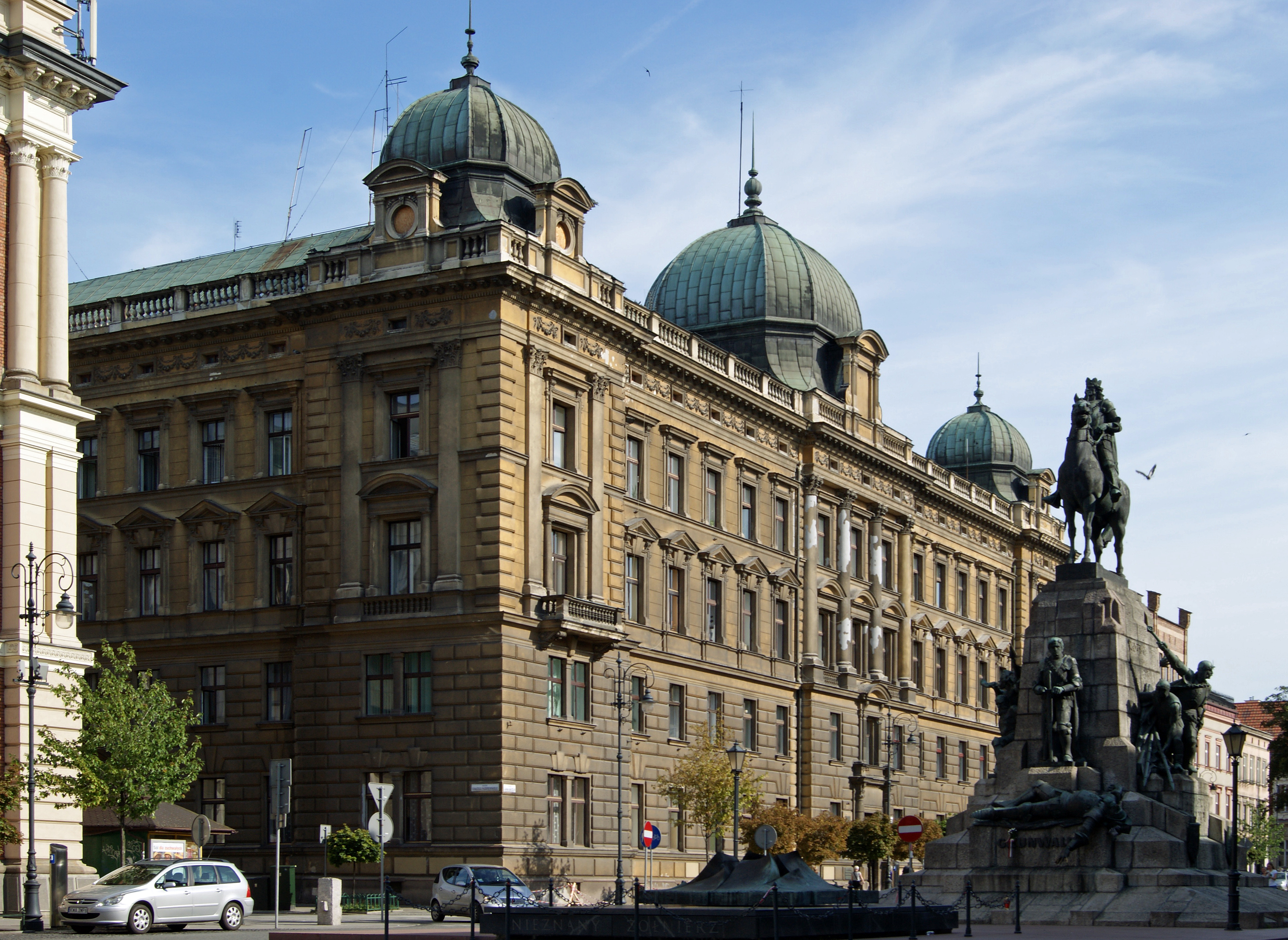 Railway Offices, 12 Matejko square, Krakow, Poland